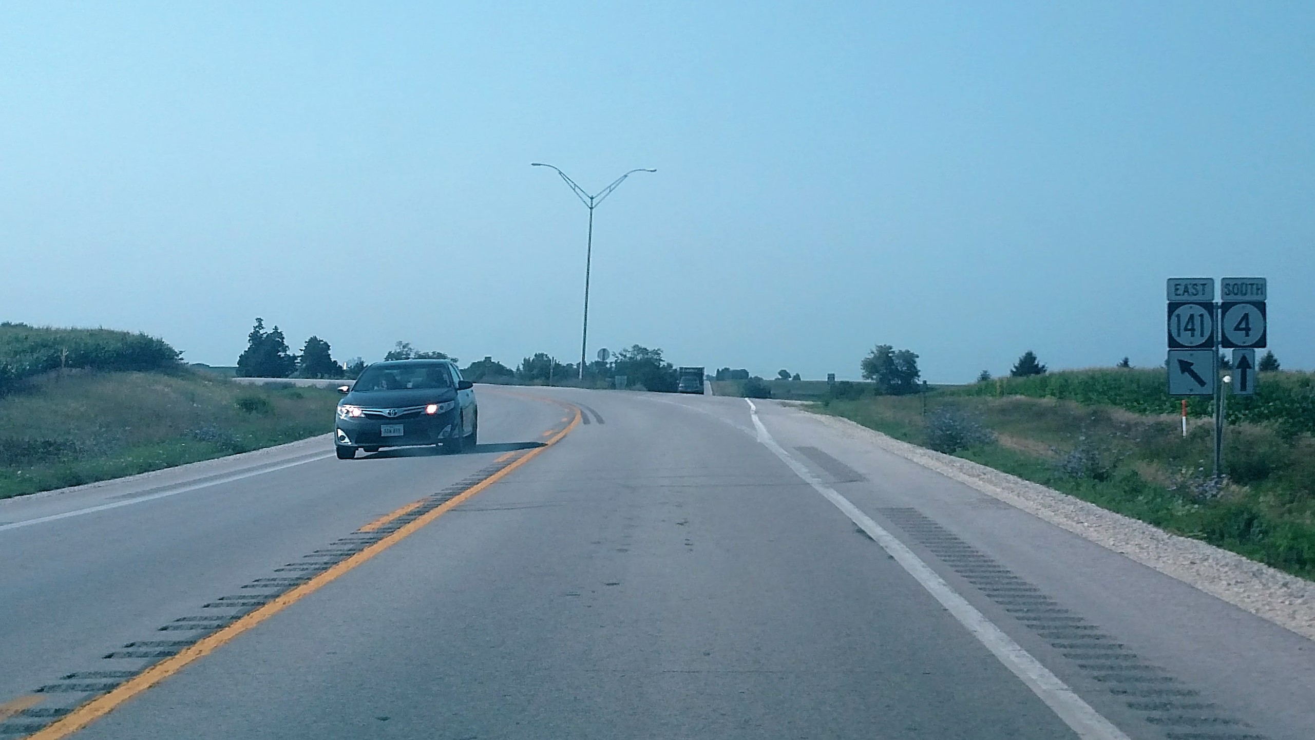 Highway 4 breaks from a concurrency with Highway 141 in Guthrie County, Iowa